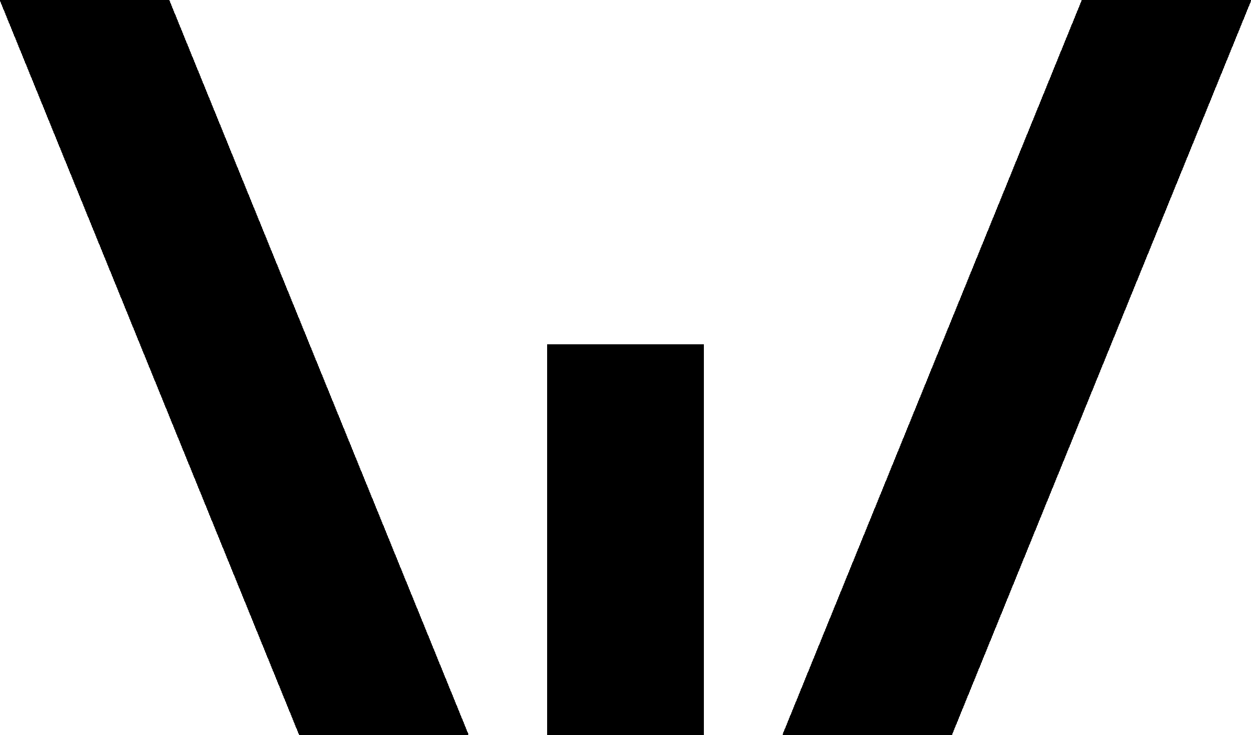 Wiese logo black